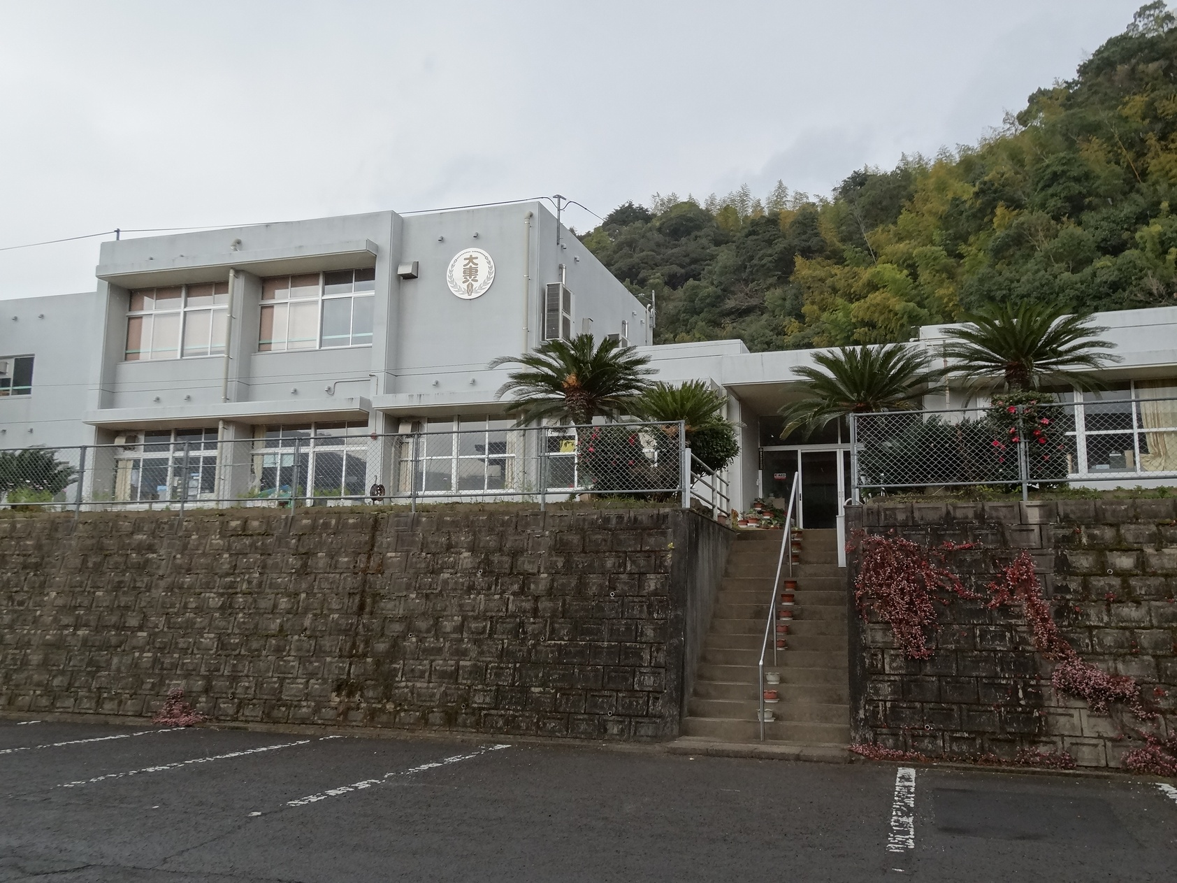 Daigou Elementary School (Satsumasendai City, Kagoshima, Japan)